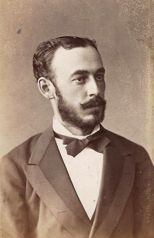 Mehmed Bey, a leading reformer and one of the founding members of the Young Ottomans; nephew of Mahmud Nedim Pasha.